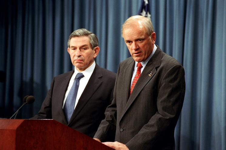 Secretary of the Army Thomas E. White (right) responds to a reporter's question during a Pentagon press briefing with Deputy Secretary of Defense Paul Wolfowitz on May 8, 2002. White and Wolfowitz briefed reporters on the cancellation of the Crusader Artillery System.